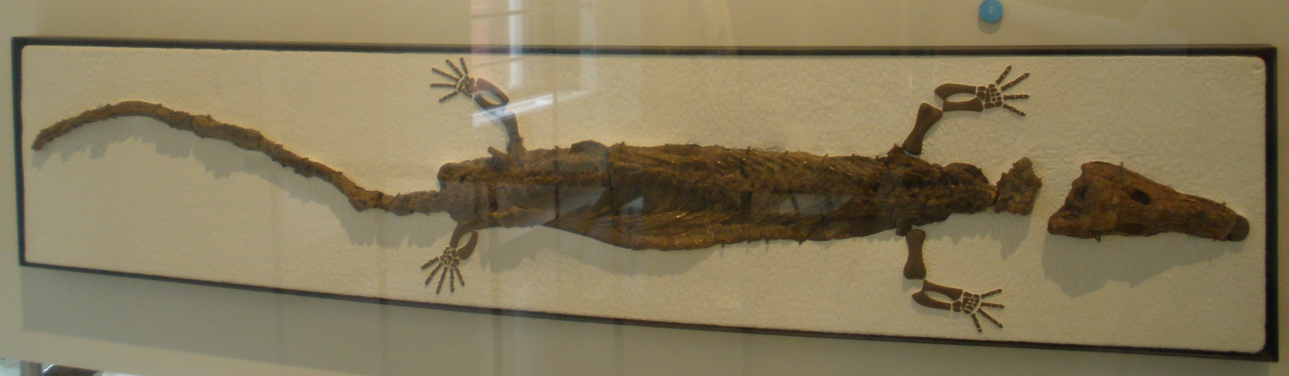 Skeleton of Cricotus crassidens, a fossil tetrapod